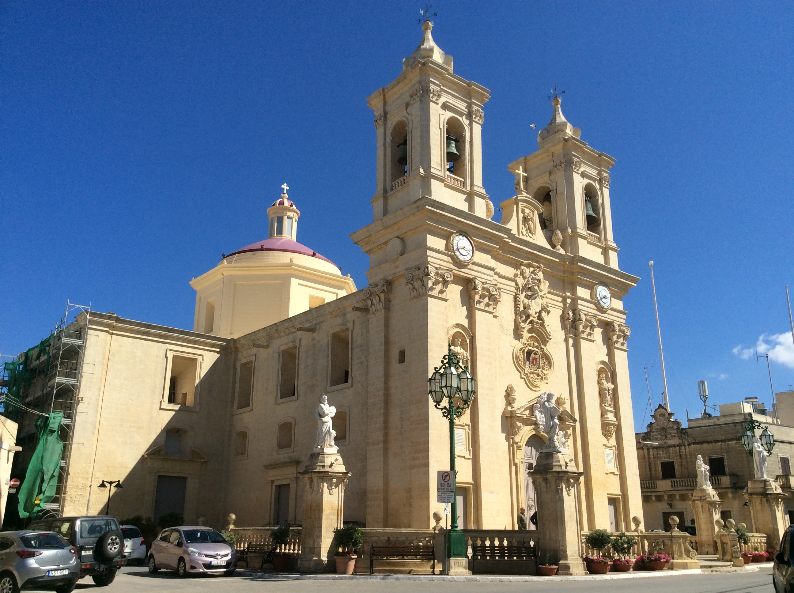 April 2017 in Gharghur